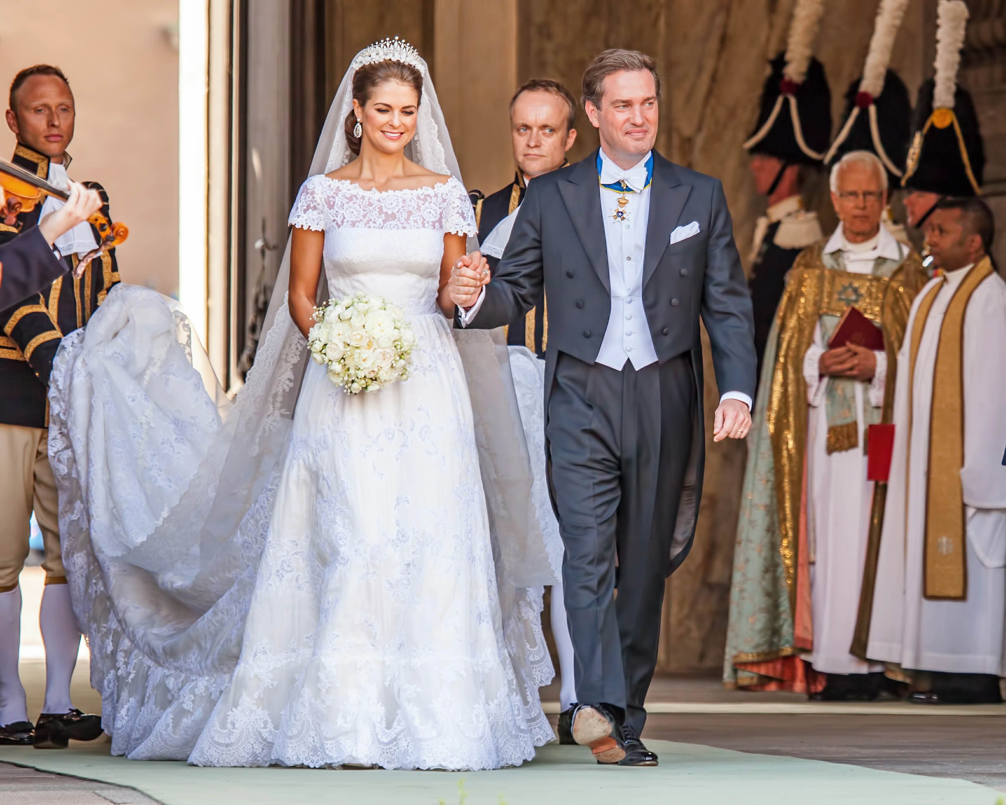 Princess Madeleine of Sweden and Christopher O´Neill wedding June 2013